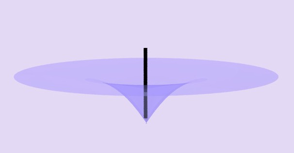 Image self-made using Art of illusion.